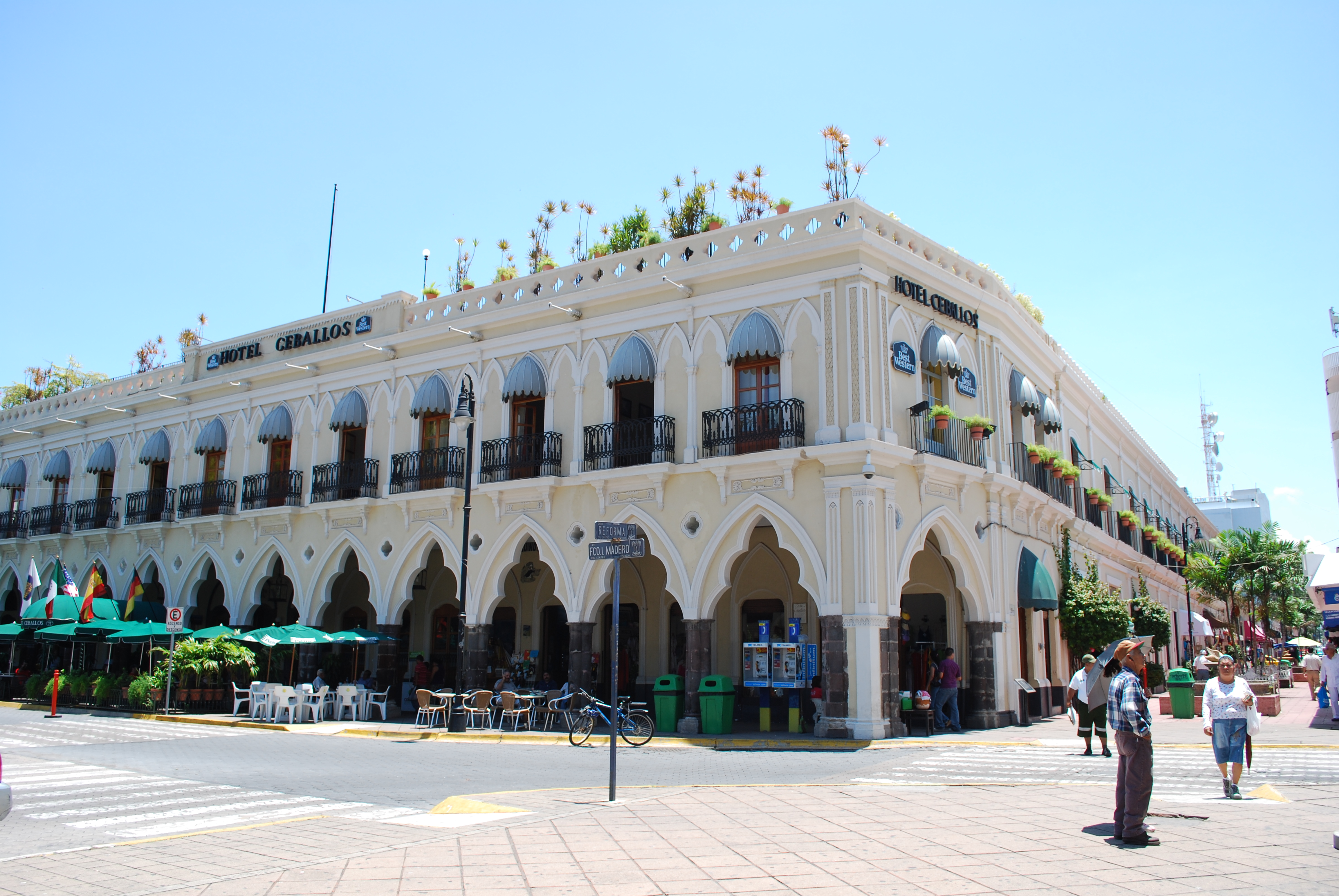 View of the Ceballos Hotel in Colima, Mexico